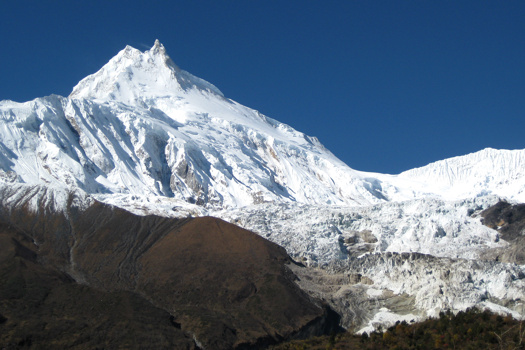 Mt. Manaslu.